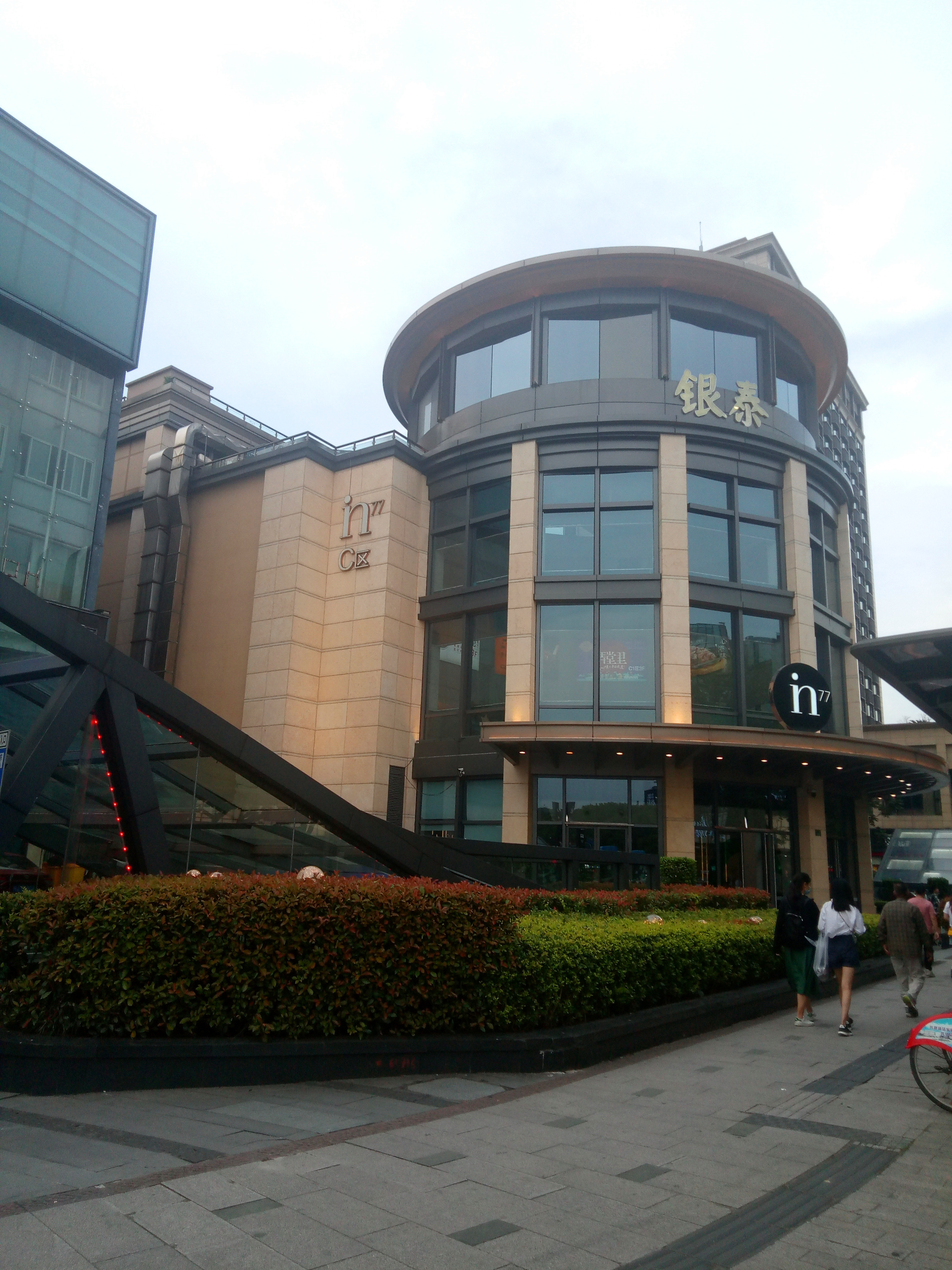 Hubin INTIME in 77